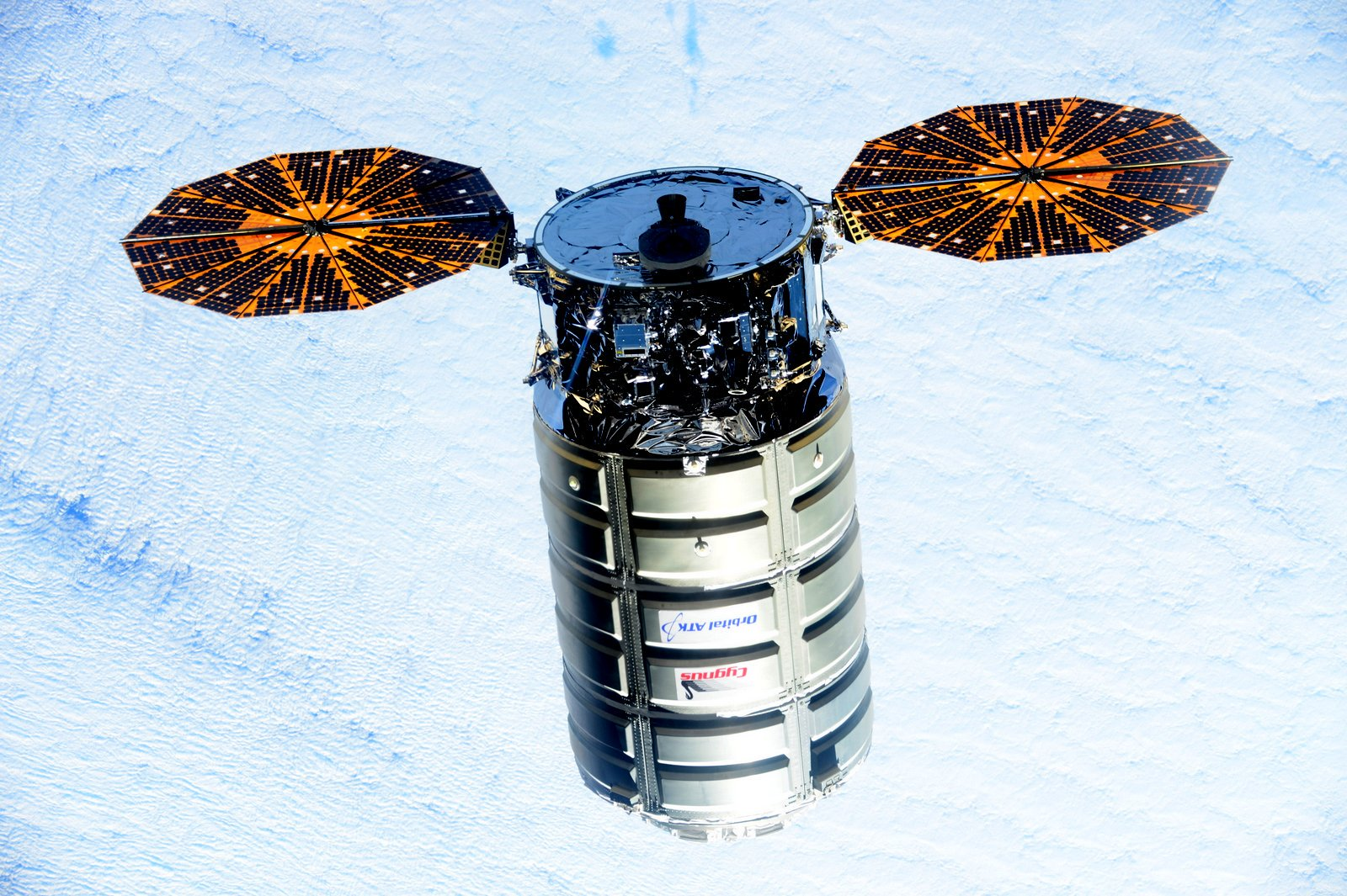 #Cygnus, AKA #SSDekeSlayton has arrived just in time for #Christmas! #YearInSpace